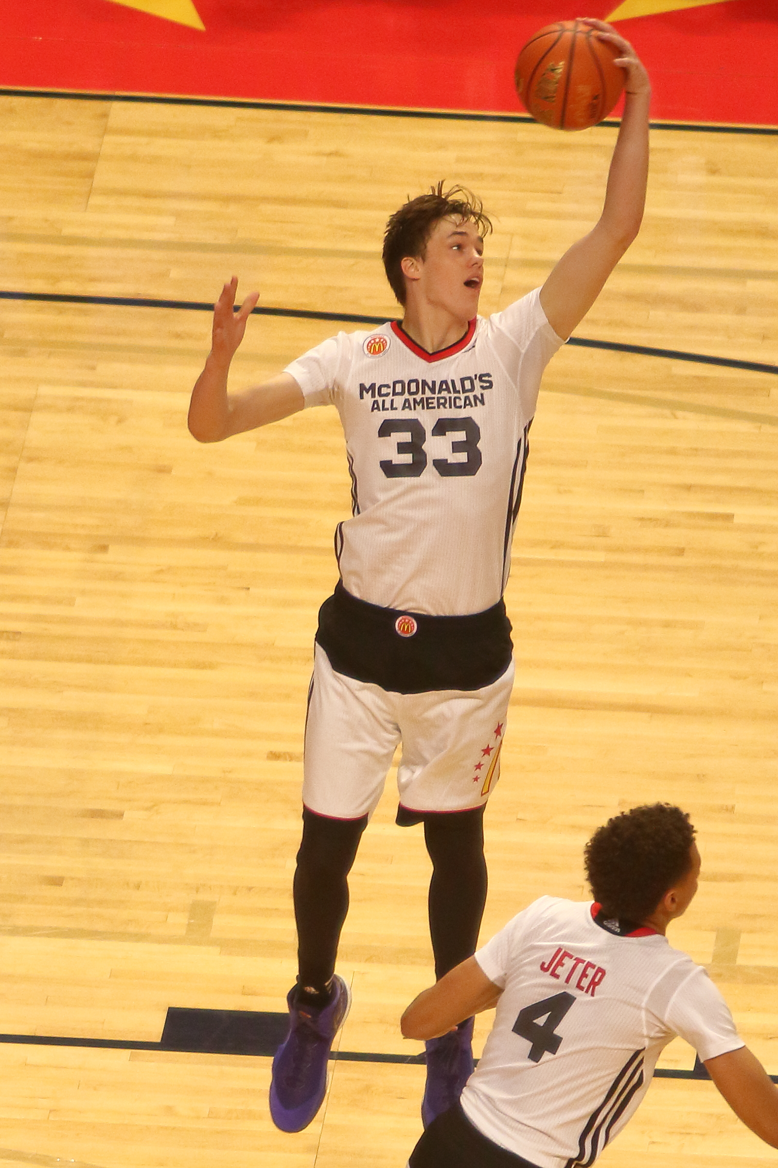 Antonio Blakeney in the w:2015 McDonald's All-American Boys Game